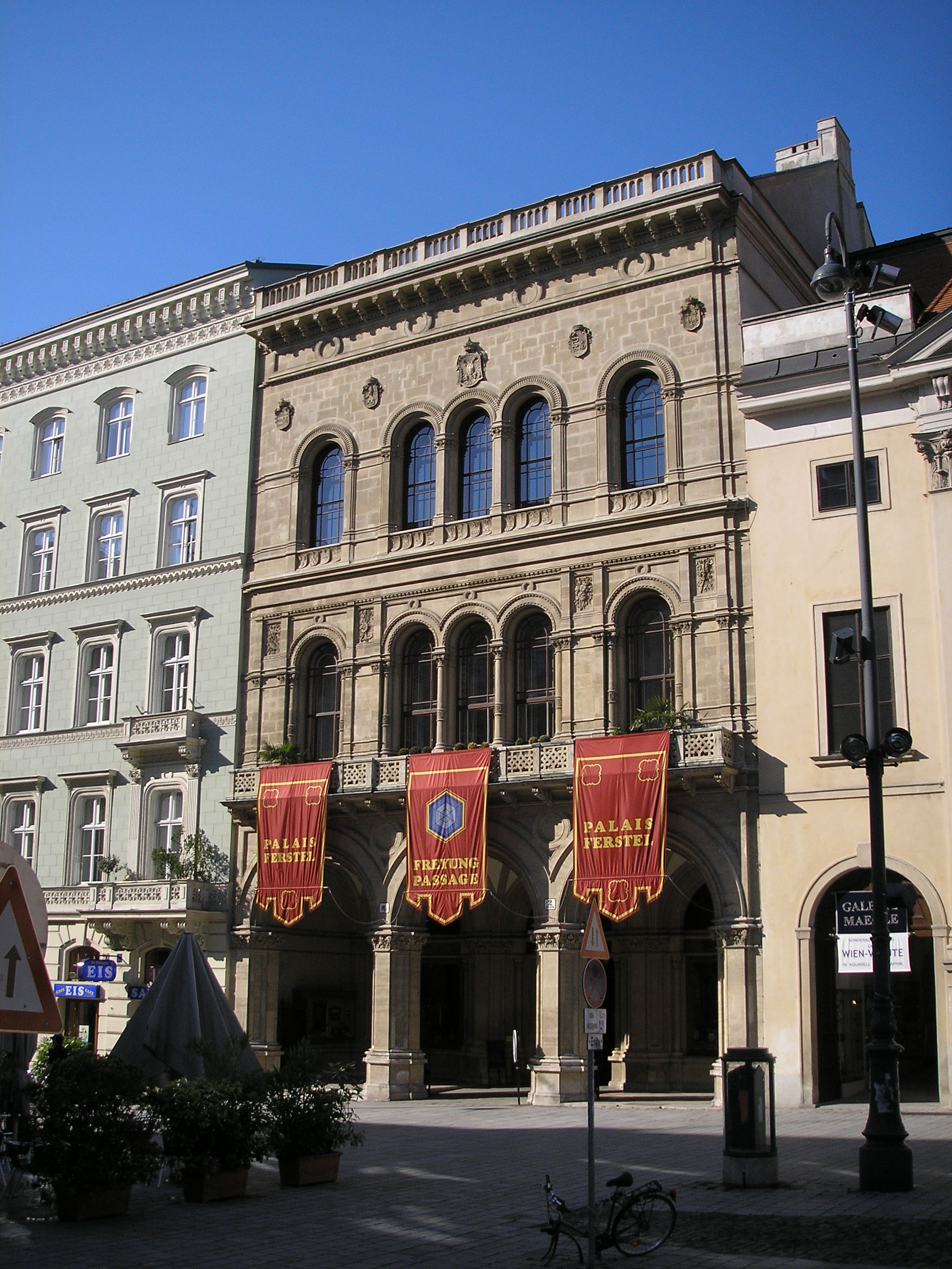 The Palais Ferstl, the former Austro-Hungarian Bank building, close the Freyung, Vienna. Constructed by Baron Heinrich von Ferstel.